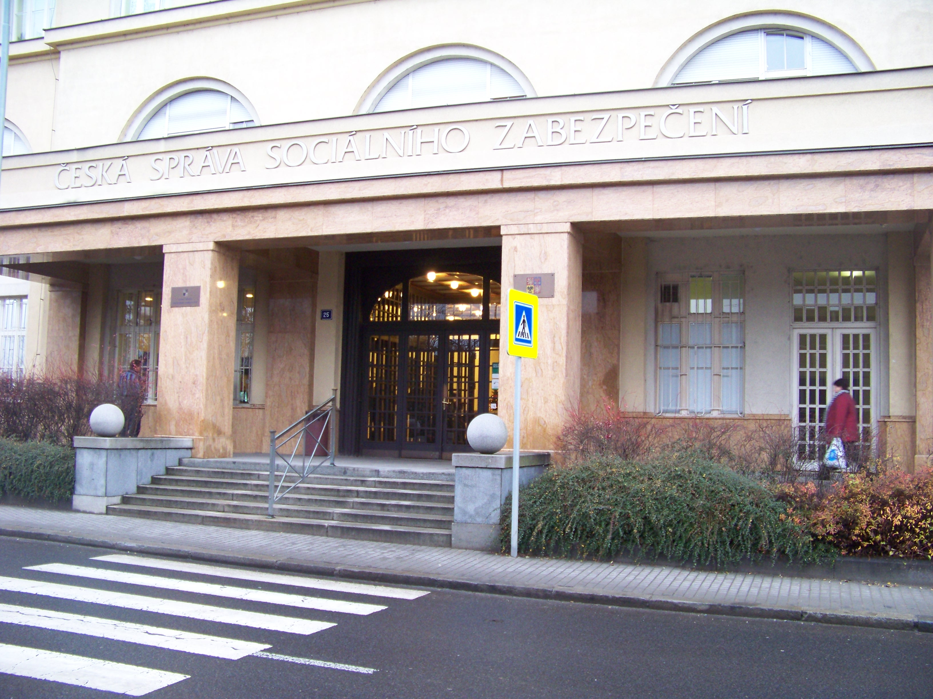 Prague, Smíchov, the Czech Republic. Křížová street, a building of rent administration.